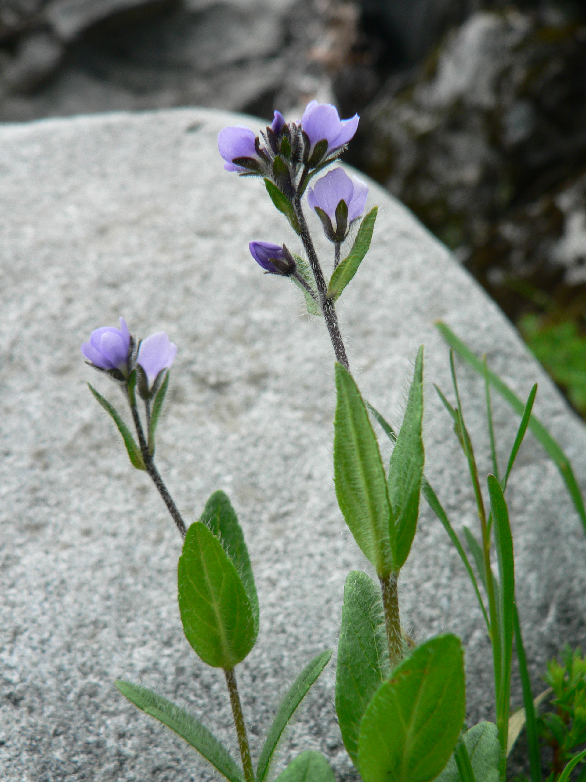 Alpine Speedwell, Hairy Speedwell